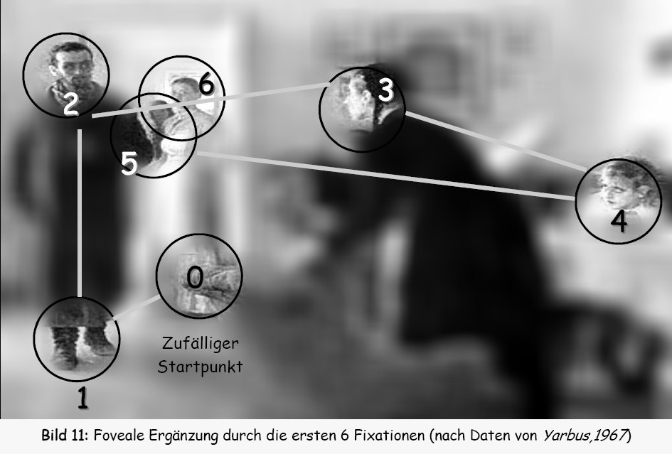 Eye movements during the first 2 seconds of viewing a picture. based on data by Yarbus, A. L. (1967). Eye movements and vision, Plenum Press, New York